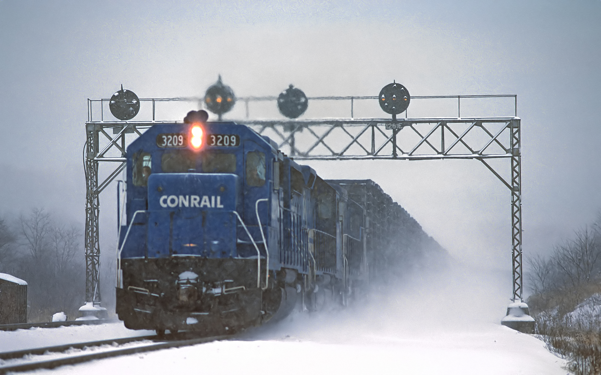 Roger Puta took these 4 Conrail photos on November 11, 1987.